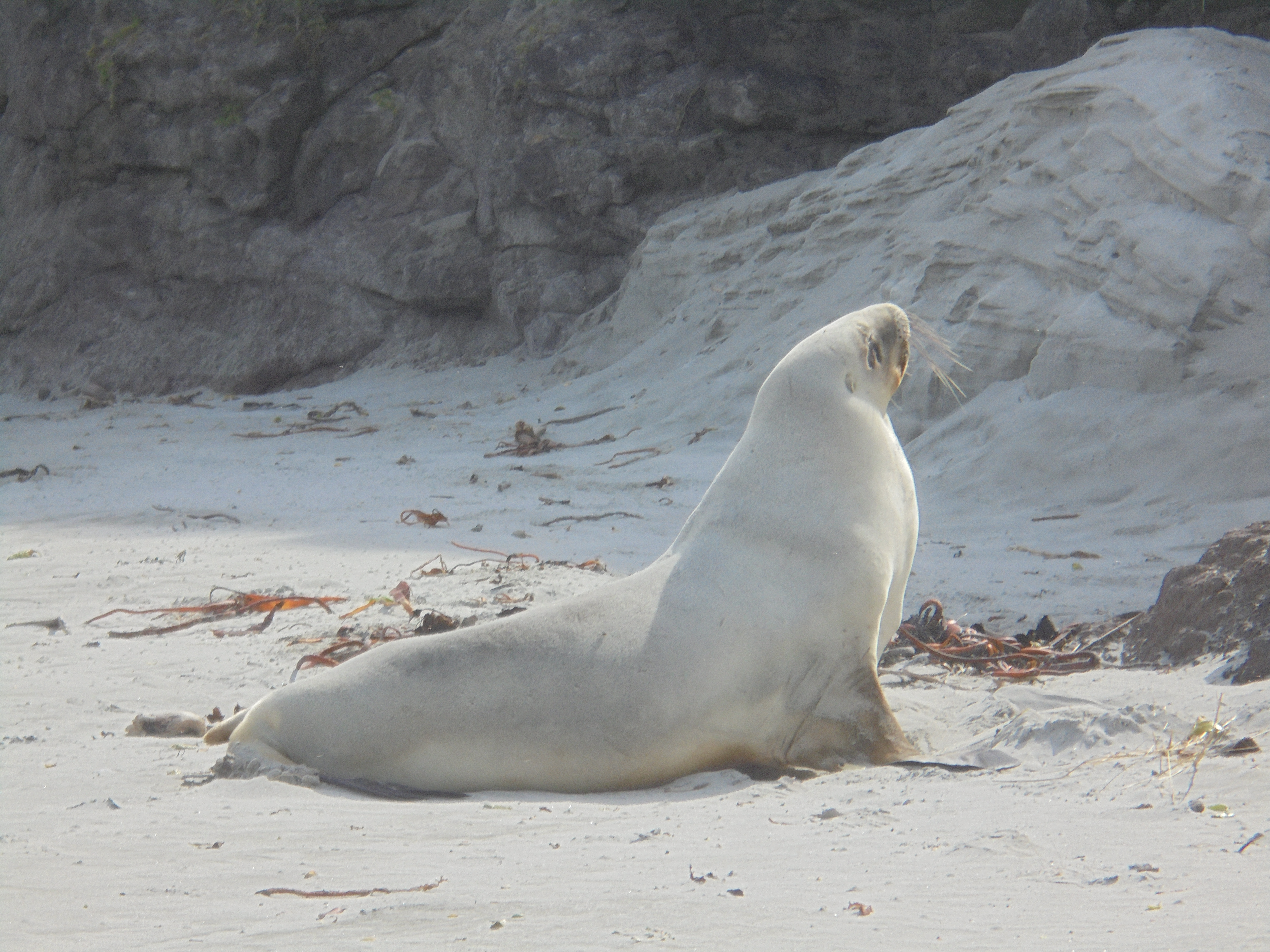 A female New Zealand sea lion (Phocarctos hookeri), pale in colour, sitting with her head raised (facing to the right) on a white sand beach, with kelp litter immediately behind her and cliffs in the background. Taken at Smaills Beach, Ocean Grove Reserve, Dunedin, in October 2019.